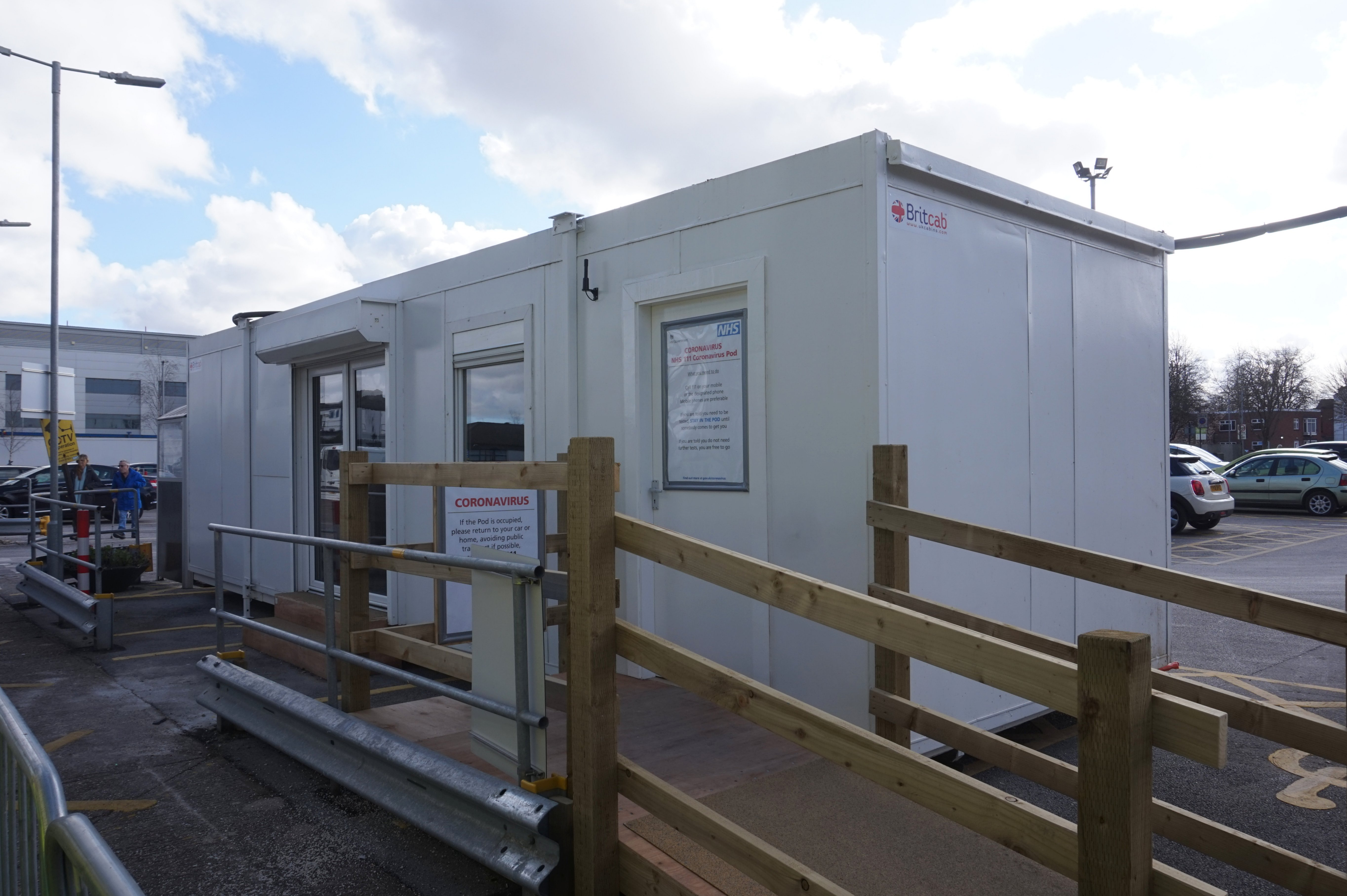 Coronavirus Pod at Hull Royal Infirmary, Hull, East Riding of Yorkshire, England.The Notice reads "What you need to do. Call 111 on your mobile or designated phone, mobile phones are preferable. If you are told you need to be tested, stay in the pod until somebody comes to get you. If you are told you do not need further tests, you are free to go."